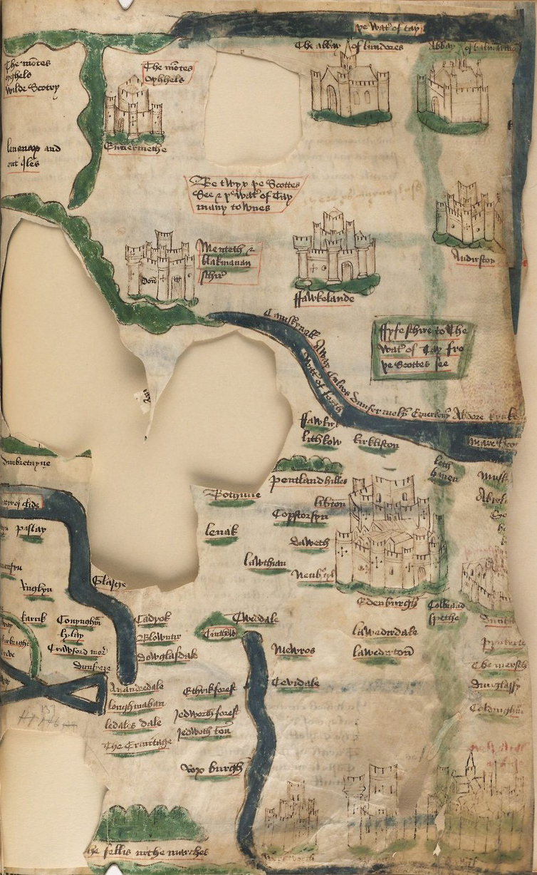 Map of Scotland showing area around Tay and Forth Rivers, from The chronicle in metre (title supplied by cataloger), a manuscript dated to the 15th century, by John Hardyng (1378-1465?). MS Eng 1054, Houghton Library, Harvard University